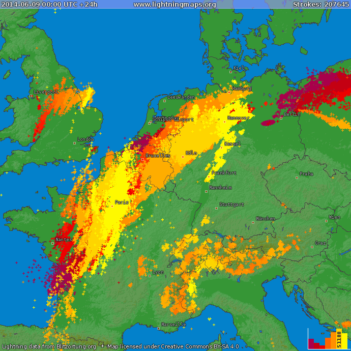 Lightning western Europe 09/06/14